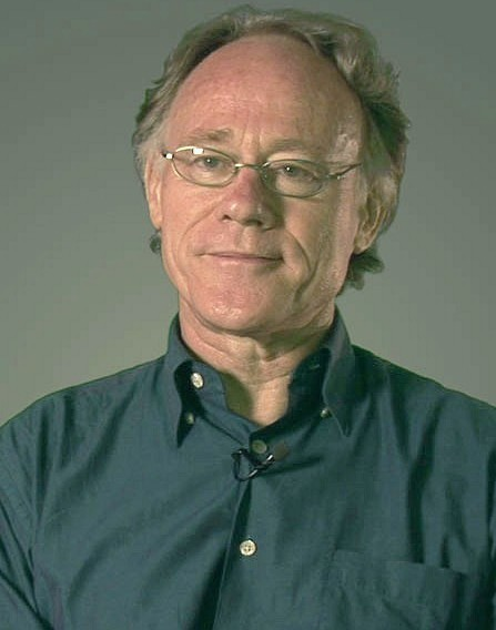 Shot on SONY HVR-A1E